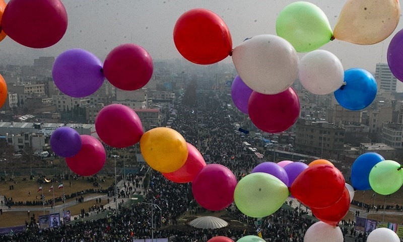 38th Anniversary of Iranian 1979 Revolution in Azadi square, Tehran